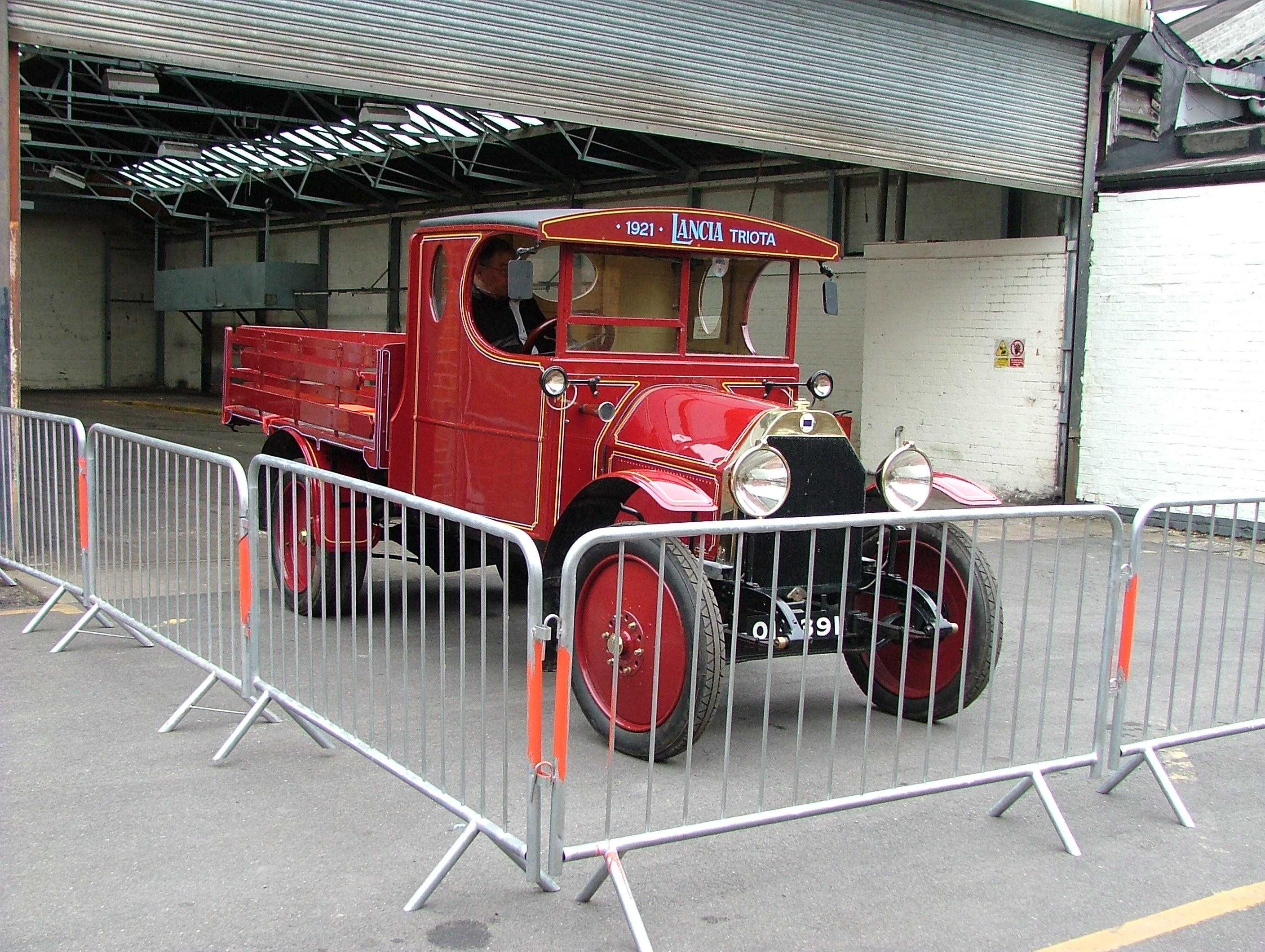 Barton Centenary, 4th October 2008